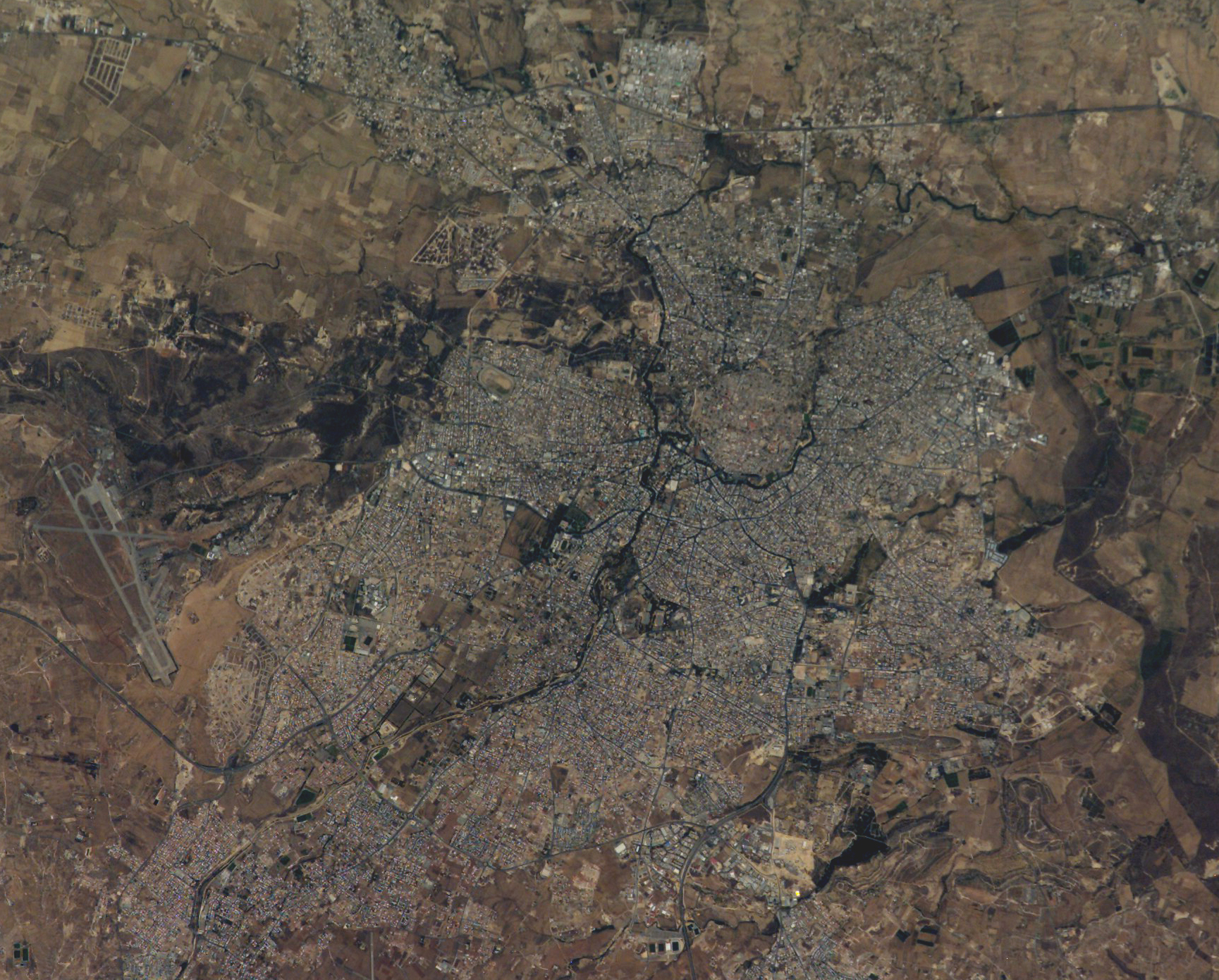 Satelite aerial of Nicosia, Cyprus.